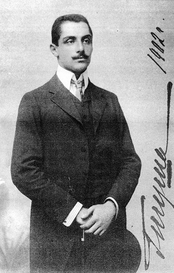 Georgian prince George Eristavi, spouse of Mary, Princess Eristavi